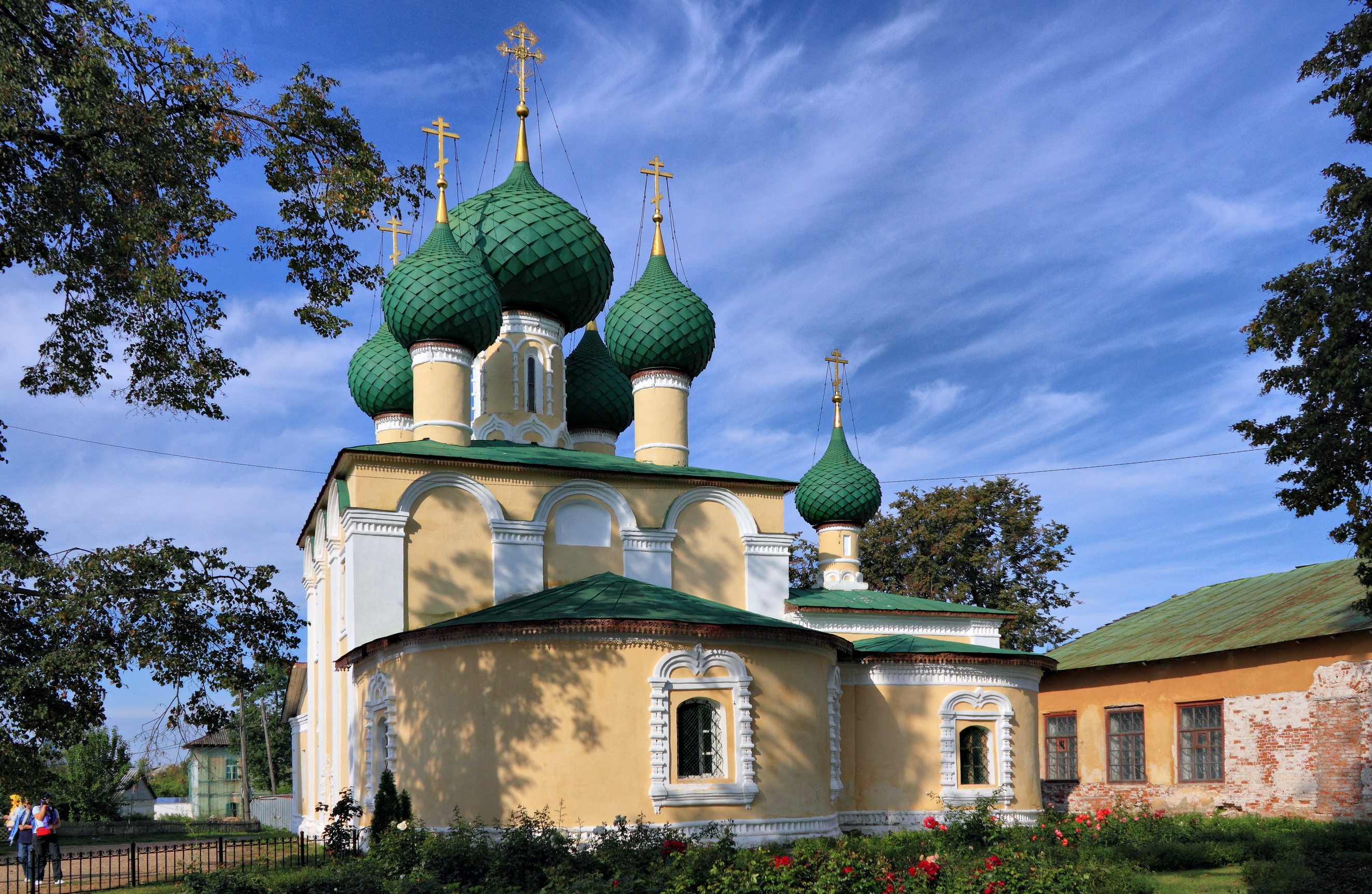 Uglich. Alekseyevsky Monastery. Saint John the Baptist Cathedral